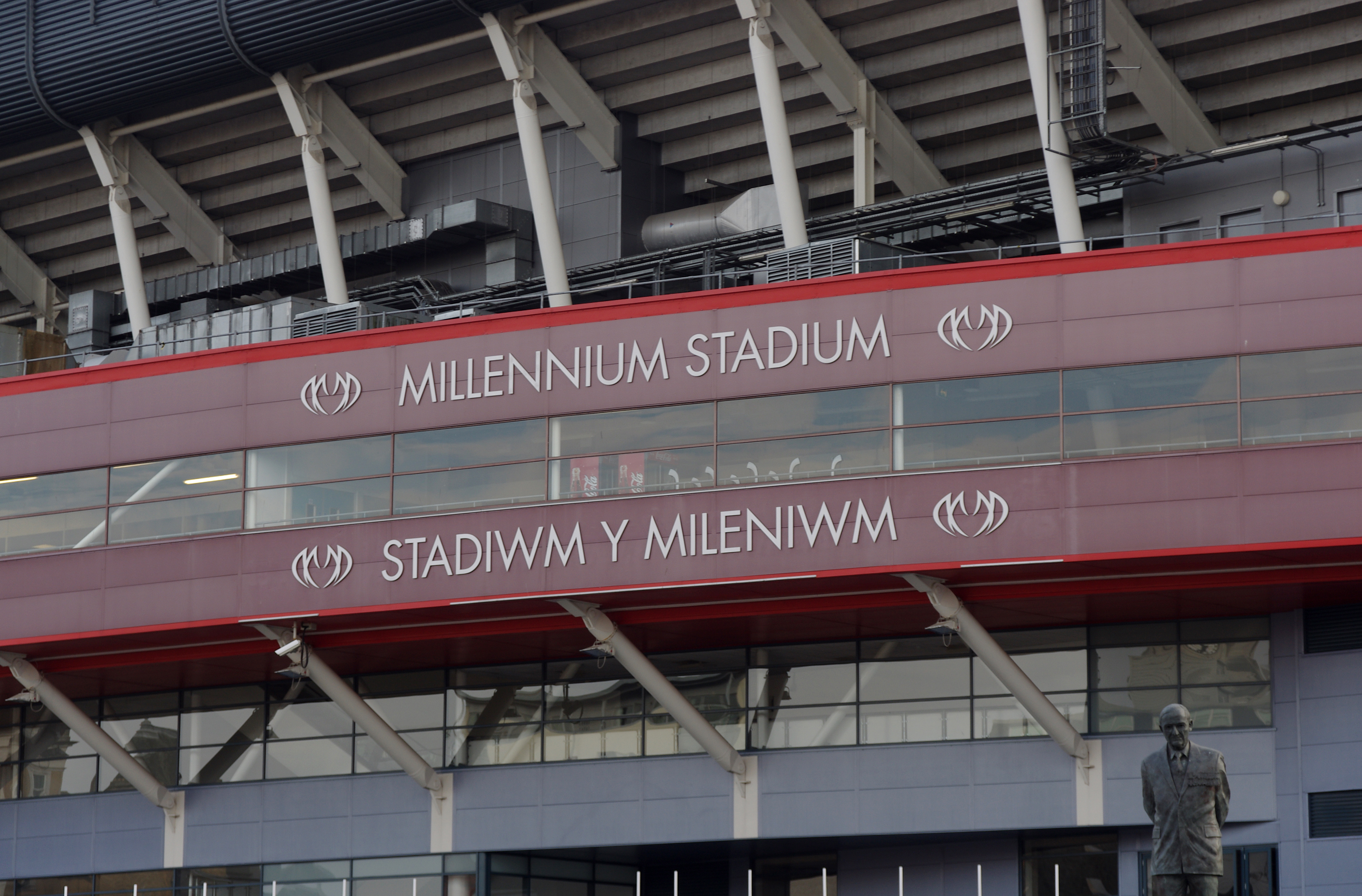 The Cardiff Millennium Stadium (Stadiwm Mileniwm).